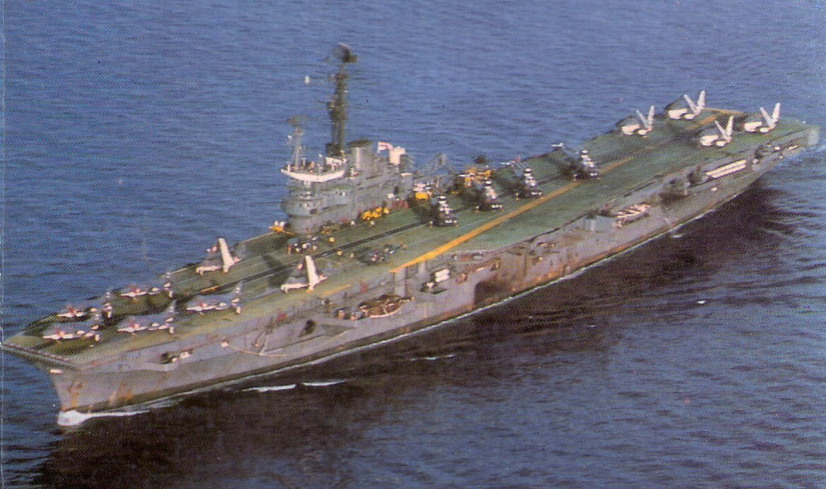 INS Vikrant circa 1984 carrying a unique complement of Sea Harriers, Sea Hawks, Allouette & Sea King helicopters and Alize ASW